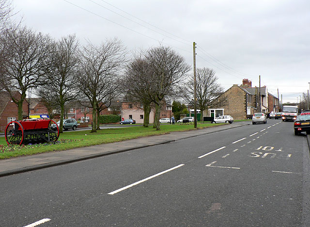 Brunswick Village. About six mile north of Newcastle upon Tyne.